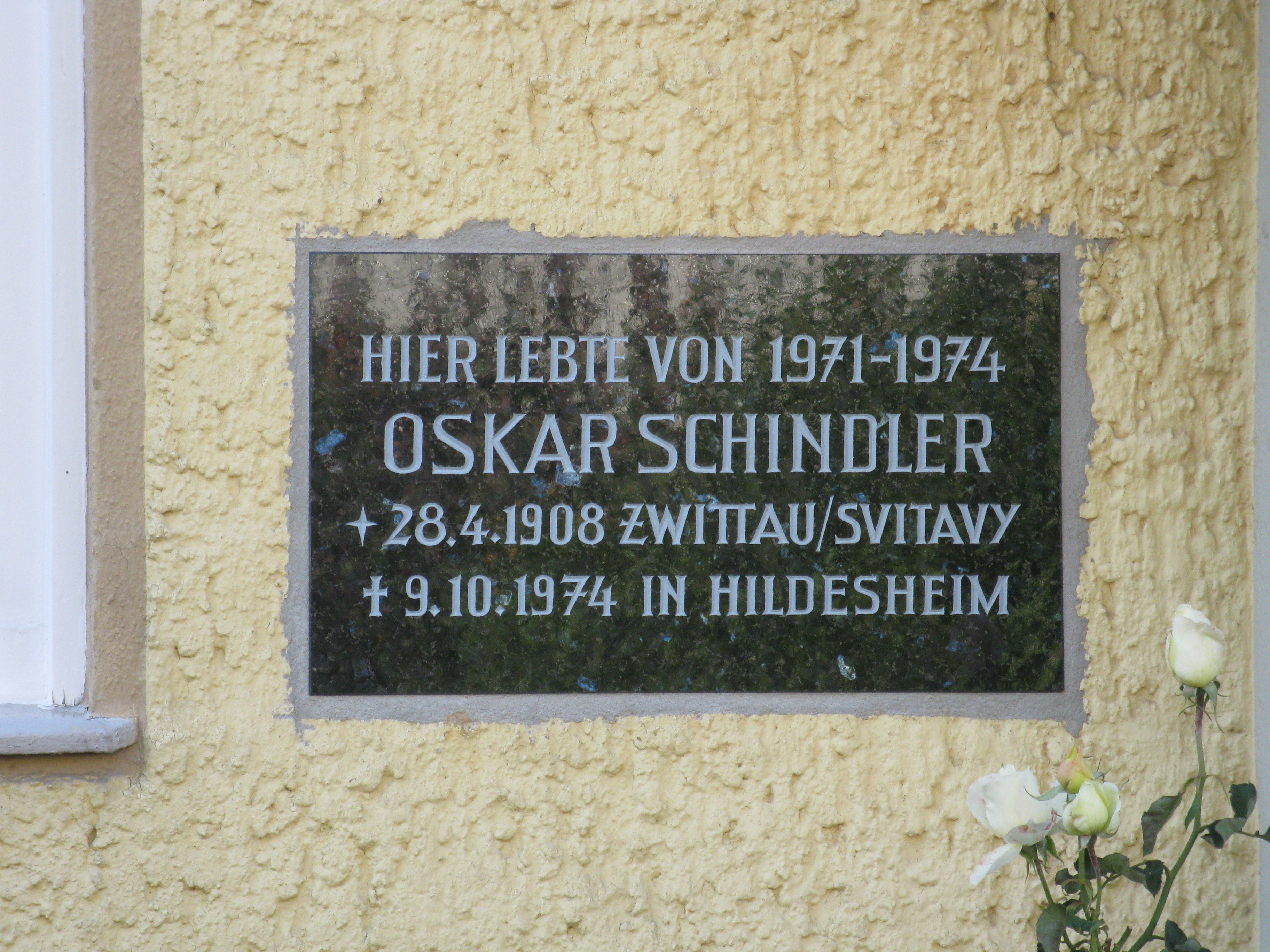 Commemorative plaque in Hildesheim, Goettingstrasse 30 (Germany)